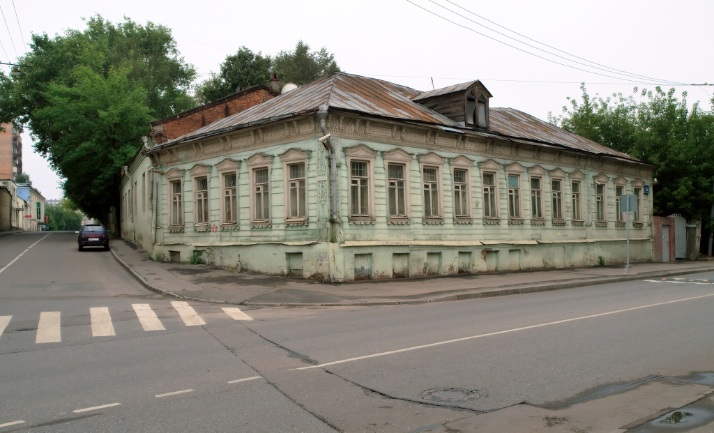 One of two remaining wooden houses in Malaya Semenovskaya street of Moscow